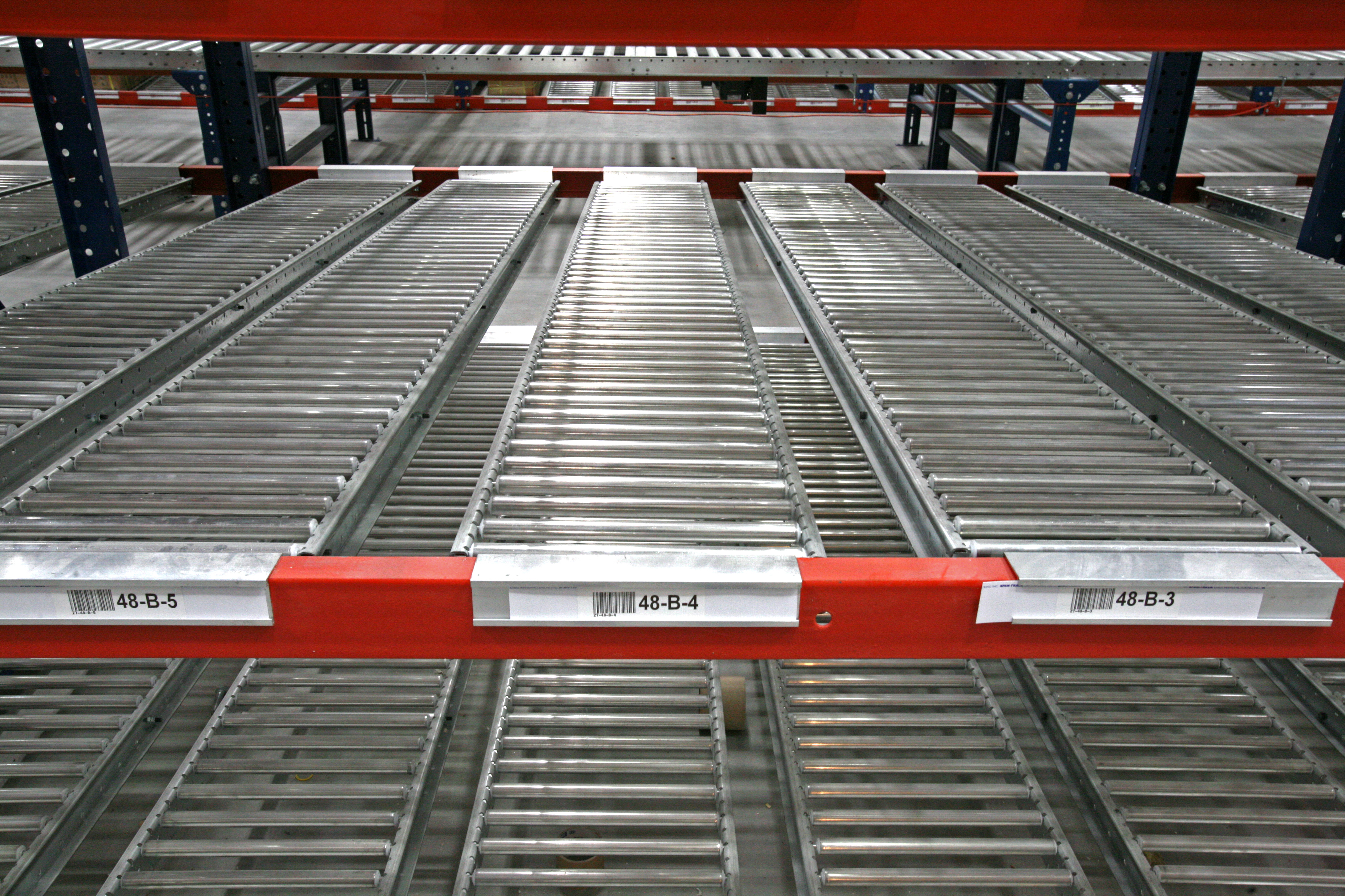 Carton flow lanes